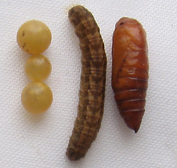 The larval and pupal stage of a dingy Cutworm next to what appears to be osmocote plant fertilizer. Tentative identification: Feltia species (dingy cutworm). Found in garden in March in Los Angeles, CA.